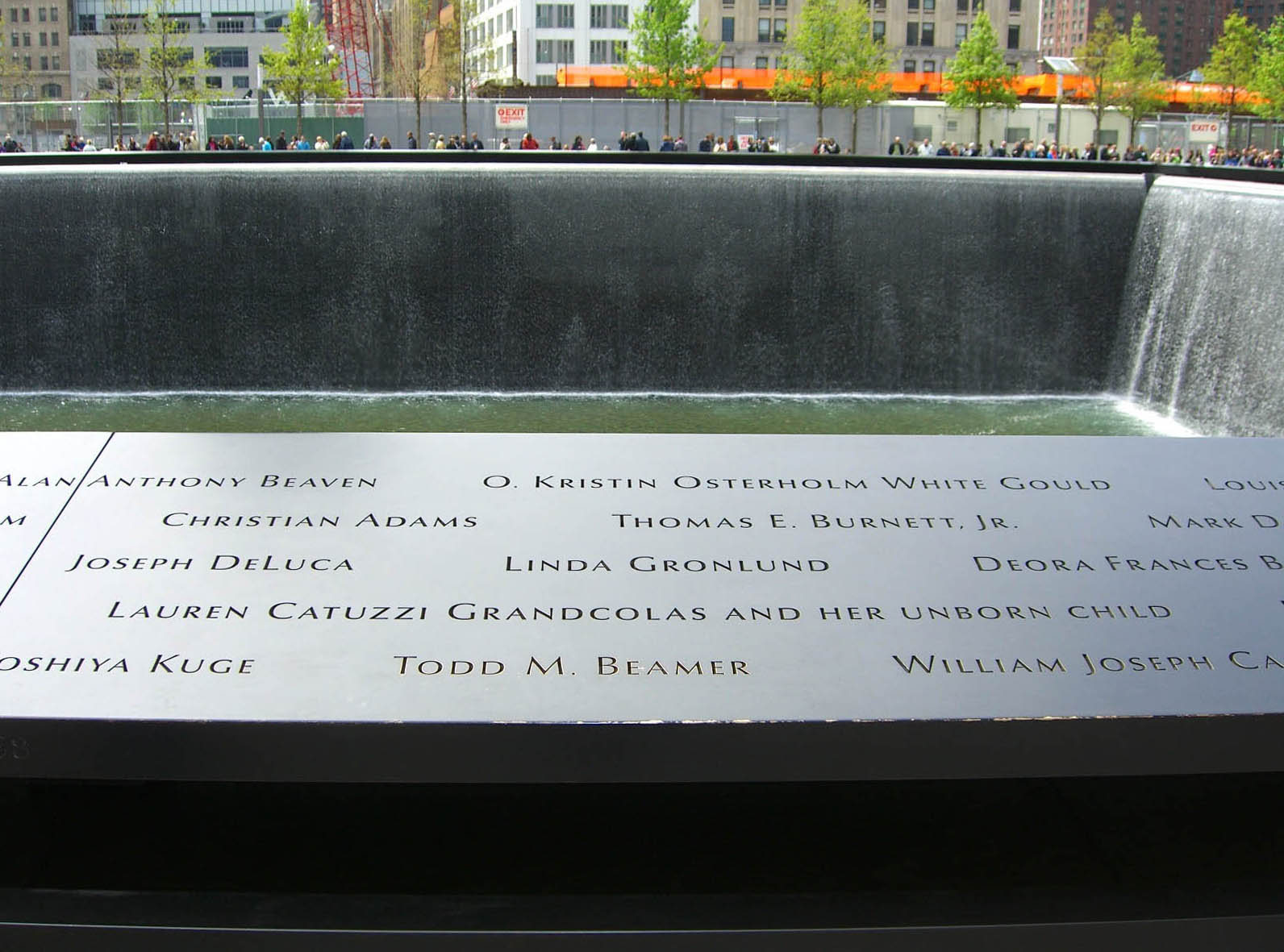 The names of Todd Beamer, Thomas E. Burnett, Jr. and Lauren Grandcolas and her unborn child are seen with those of other United Airlines Flight 93 passengers who lost their lives in the September 11 attacks on Panel S-68 of the National 9/11 Memorial's South Pool in Manhattan, as seen on April 28, 2012. This photo was created by Luigi Novi. If you have any questions, you can contact me by sending me an email or leaving a note at the bottom of my talk page.